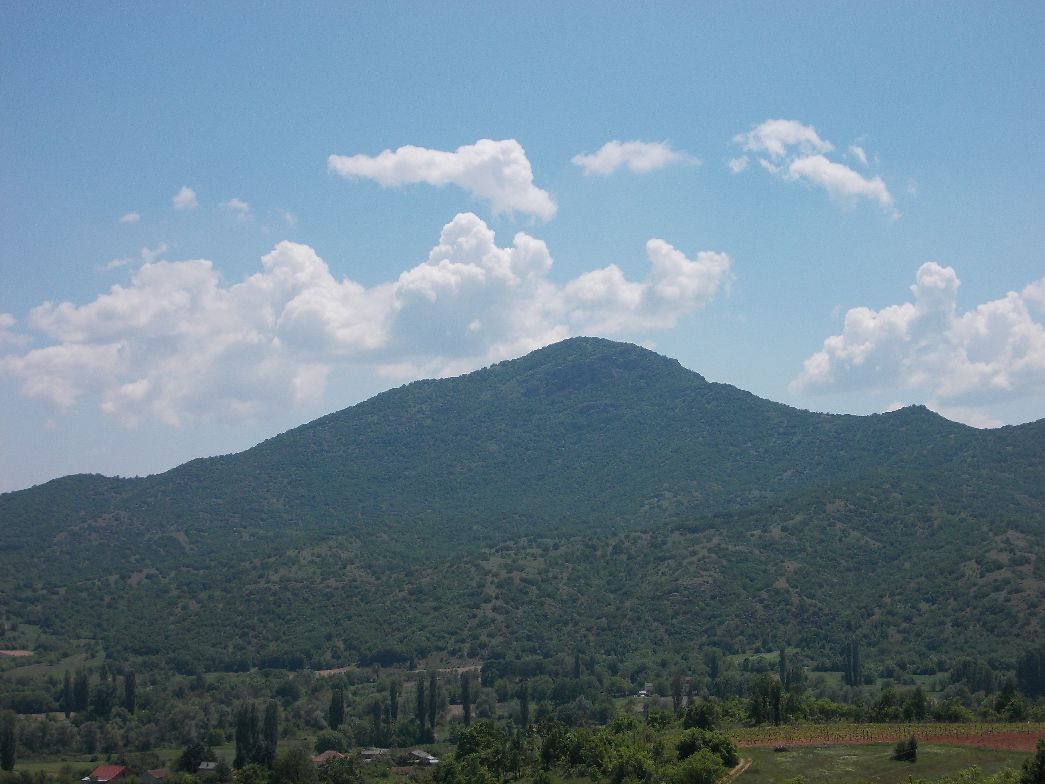 View of the mountain Ruen, Macedonia